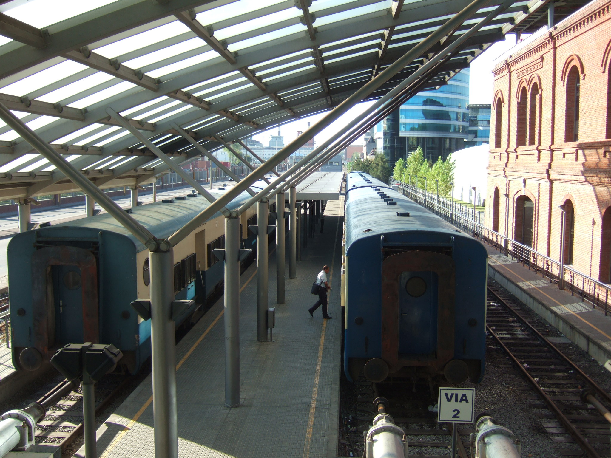 Montevideo Railway Station, Uruguay.